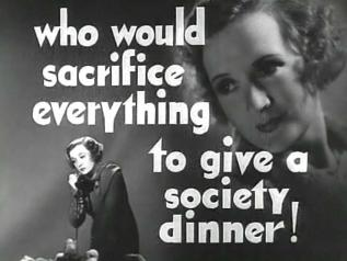 Cropped screenshot of Billie Burke from the film Dinner at Eight